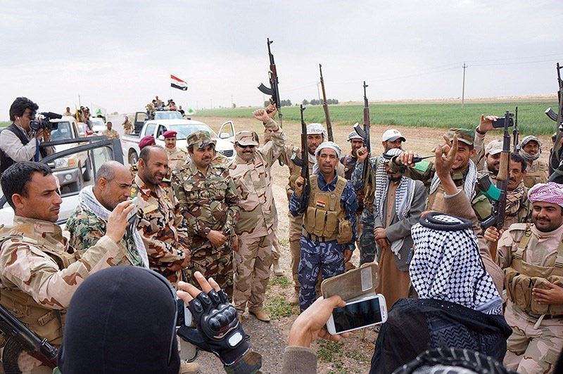 Iraqi Army and Hashed al-Shaabi (Popular Mobilization Forces of Iraq) fighting against the Islamic State in Saladin Governorate.